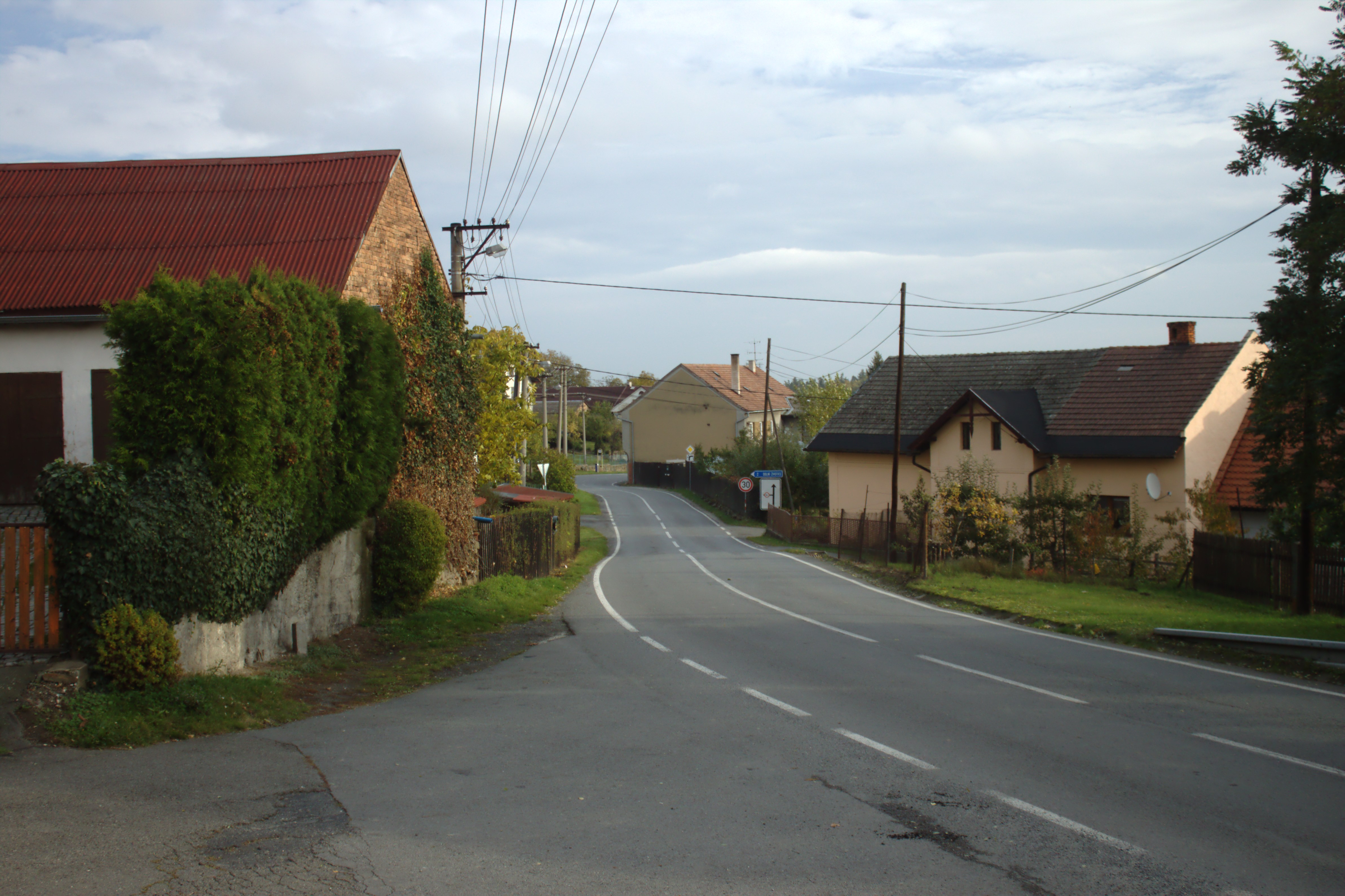 Buildings at the main road in Mikolajice, Moravian-Silesian Region, CZ